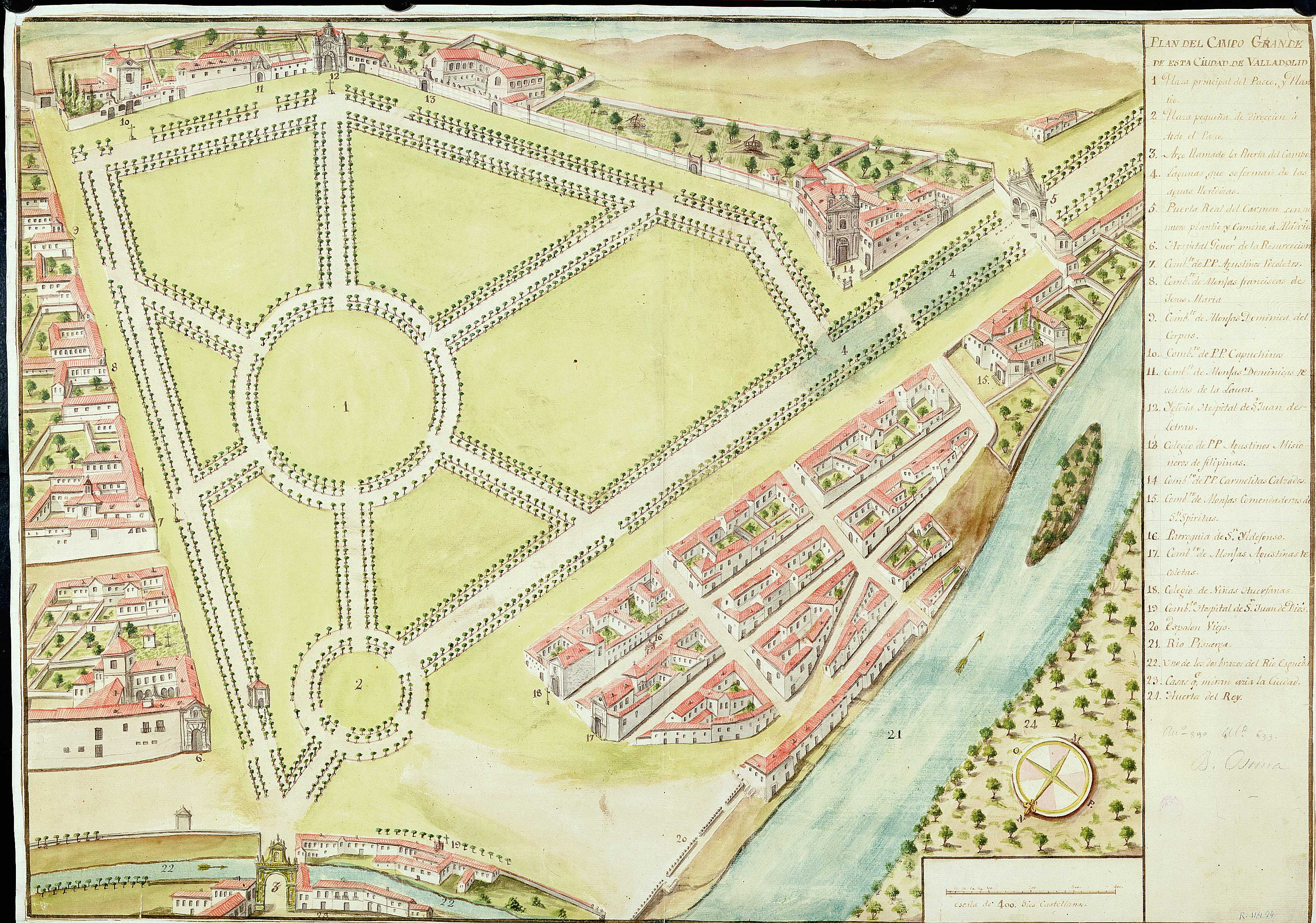 Map of Campo Grande, a park in Valladolid, Spain, circa 1788.